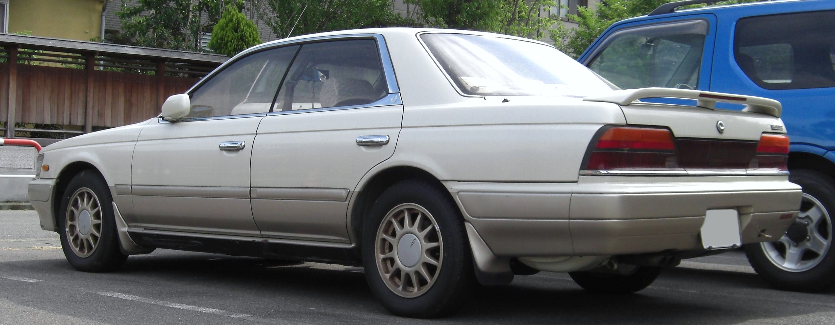 NISSAN Laurel